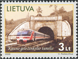 Stamps of Lithuania, 2005